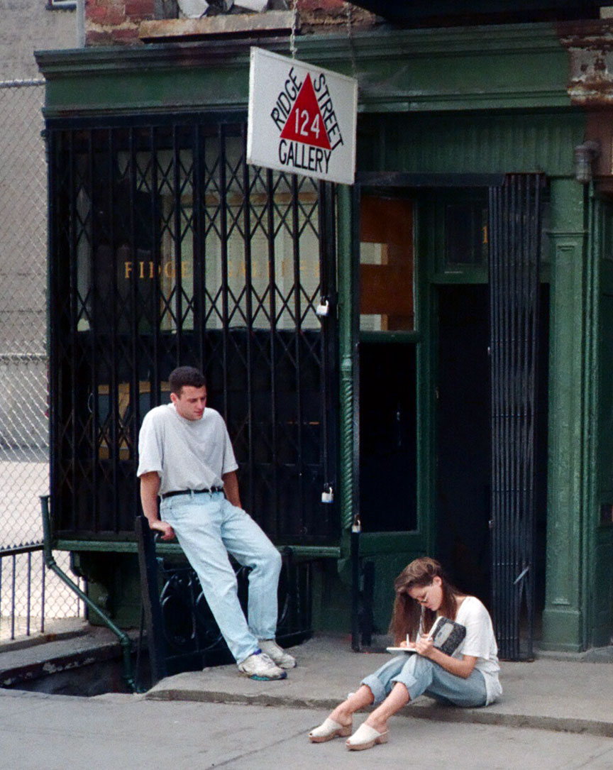 The 124 Ridge Street Gallery in the Lower East Side of Manhattan in summer of 1993.